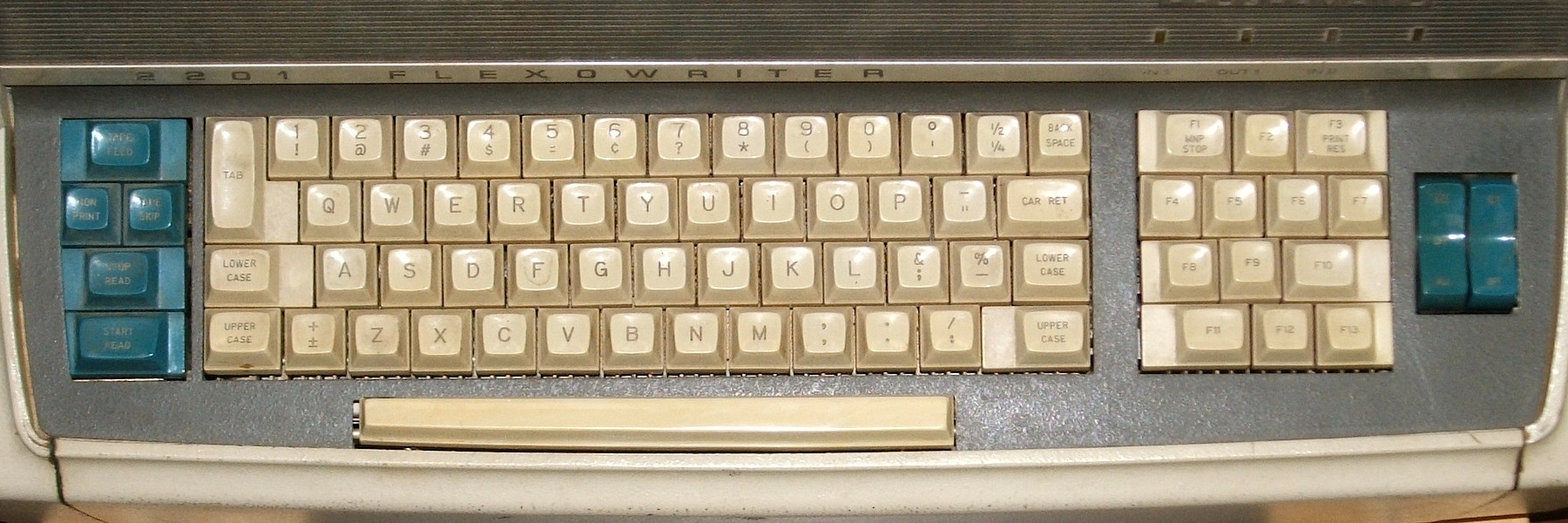 Keyboard of a Singer-Friden Flexowriter model 2201 (Programatic) made in late 1968. The cluster of keys to the left of the main keyboard control the paper-tape reader and punch. The cluster to the right are function keys marked F1 to F13. Note also that the shift function has separate upper-case and lower-case keys -- that is, only a locking shift function is provided. Finally note the inversion of the numerals and punctuation on the top row of keys -- punctuation is lower case, numerals are upper case.